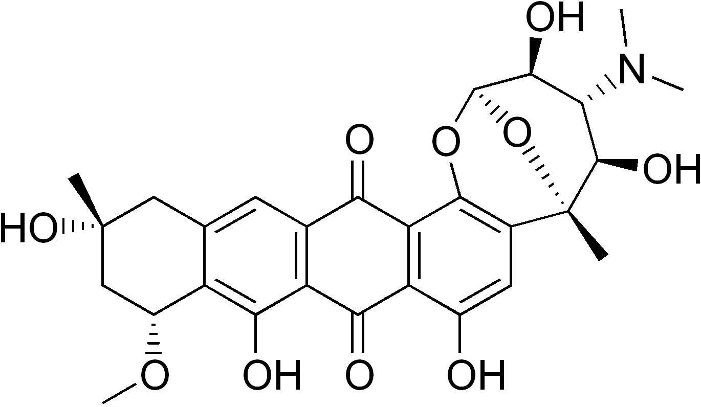 chemical structure of menogaril